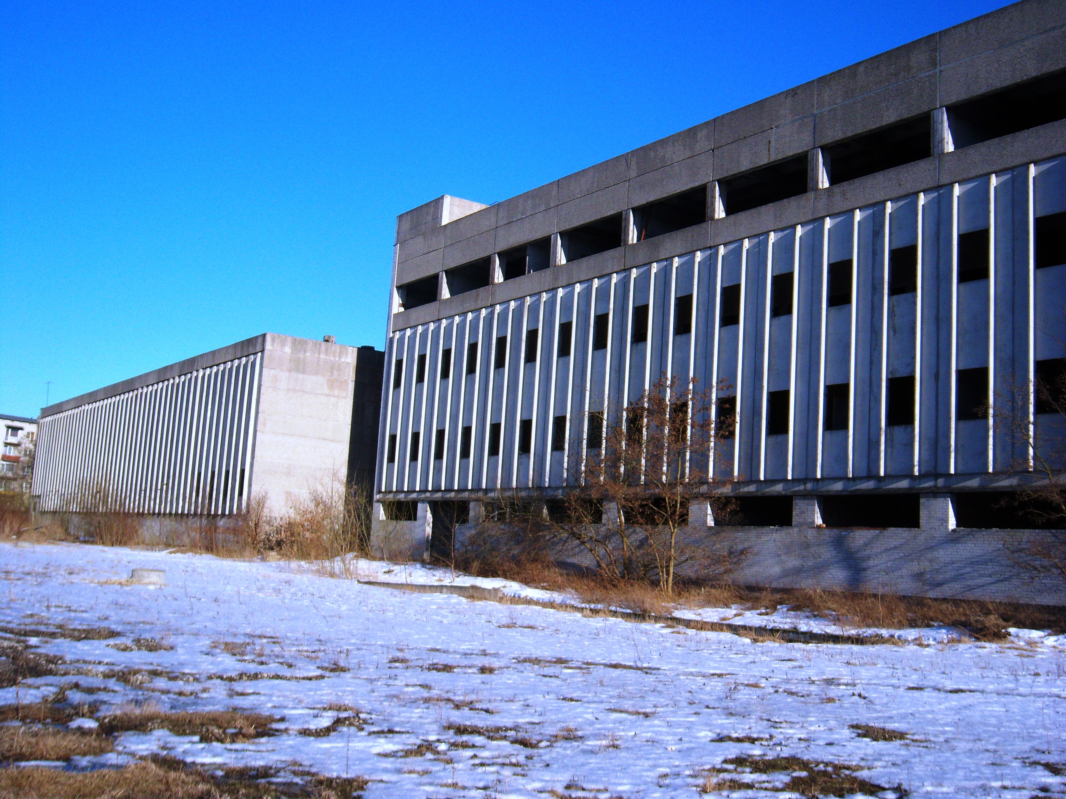 Abandoned buildings of „Sanitas“ pharmaceutical company, Kaunas, Lithuania